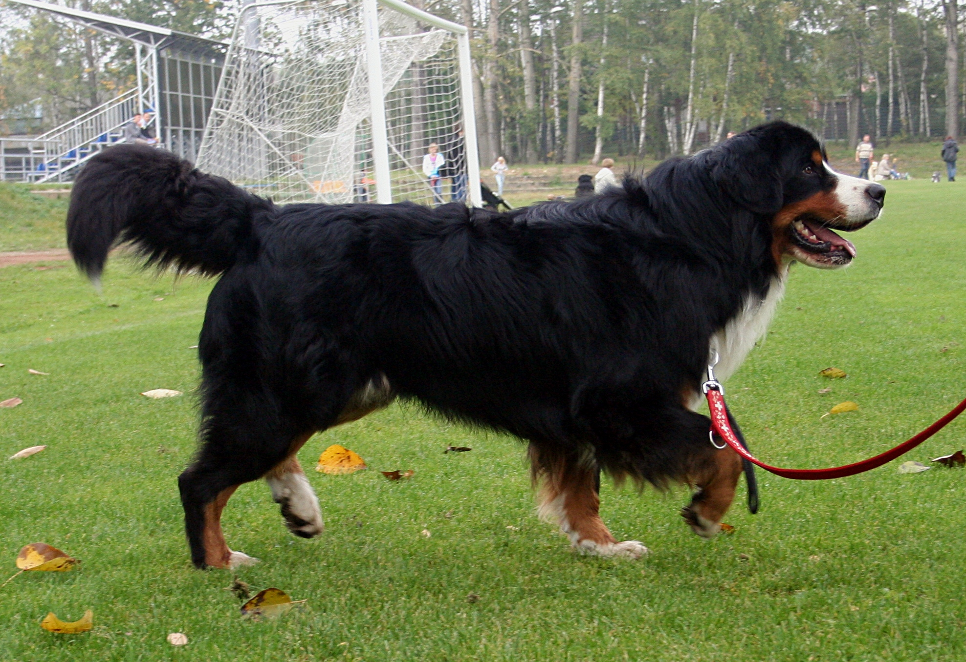 Bernese Mountain Dog during Dogs Show in Rybnik.